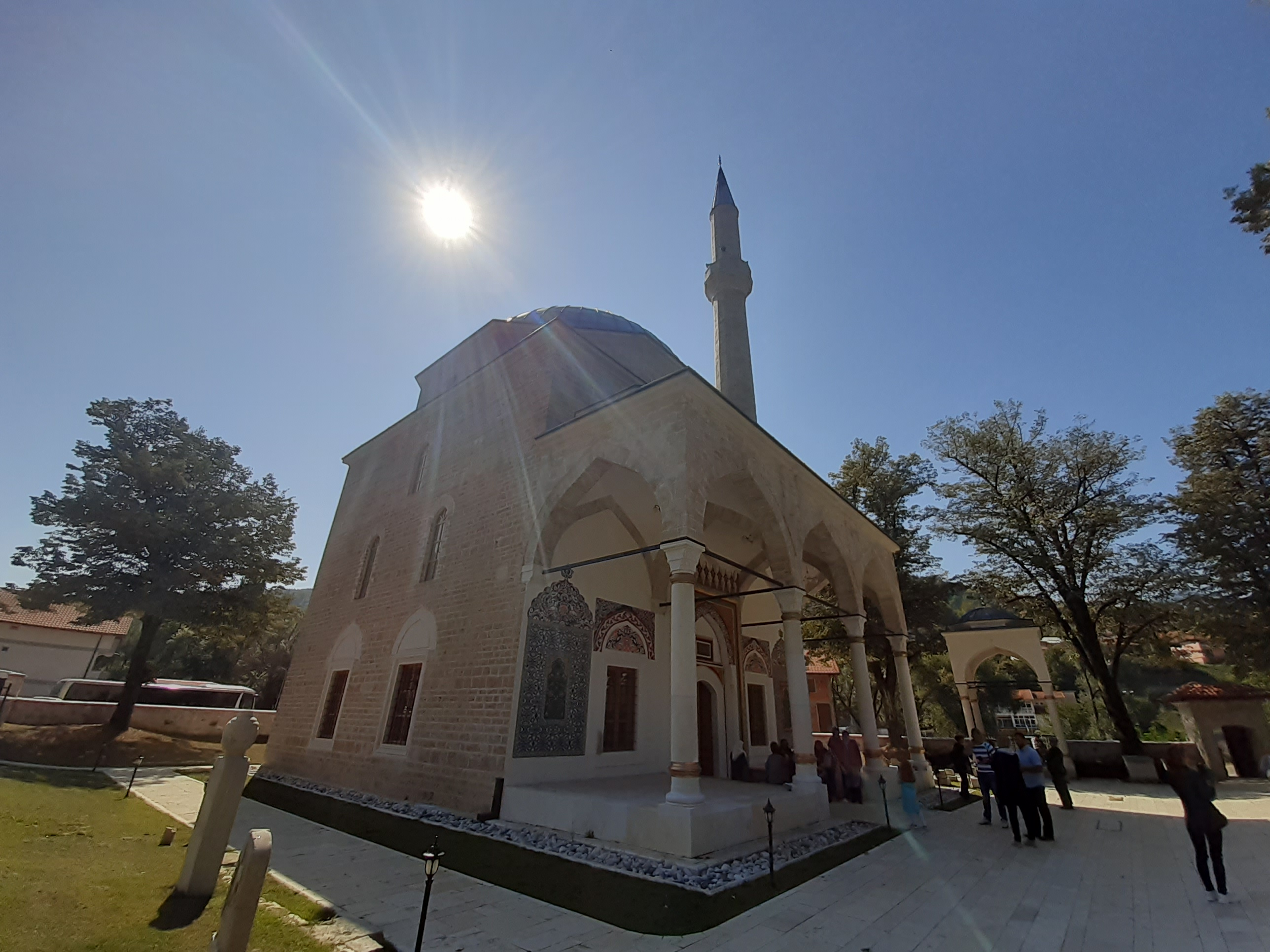 Džamija Aladža u Foči. This image was uploaded as part of Trace of Soul 2019.